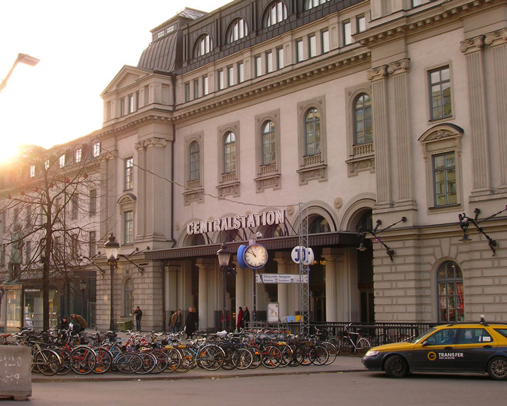 Outside Stockholm's Centralstation